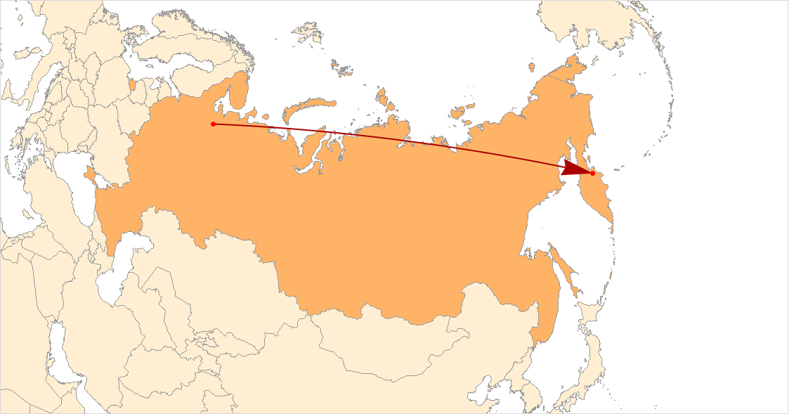 map of missile flight path Plesetsk - Kura